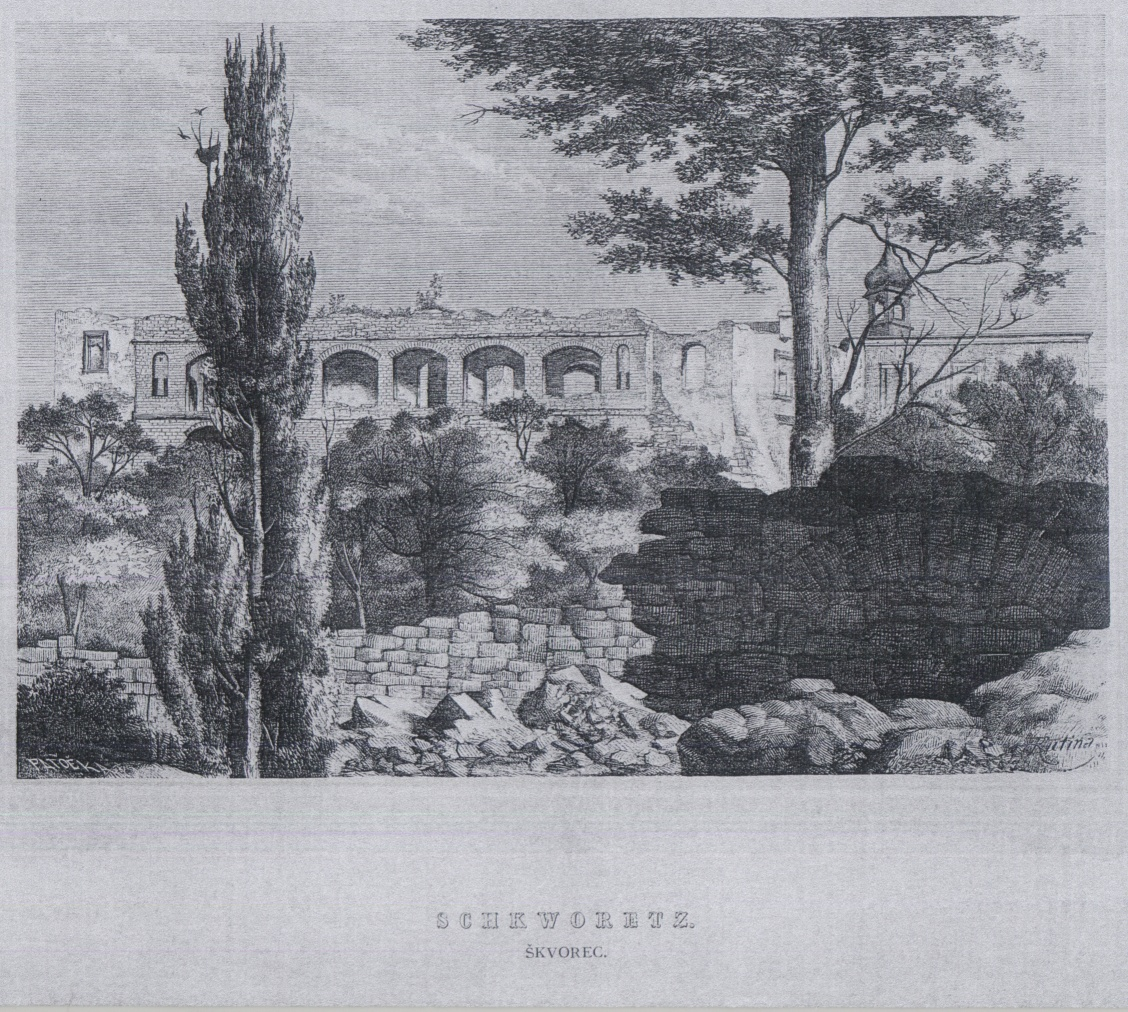 West side arcade